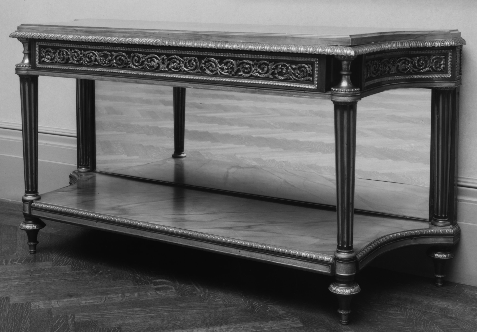 French; Side table; Woodwork-Furniture